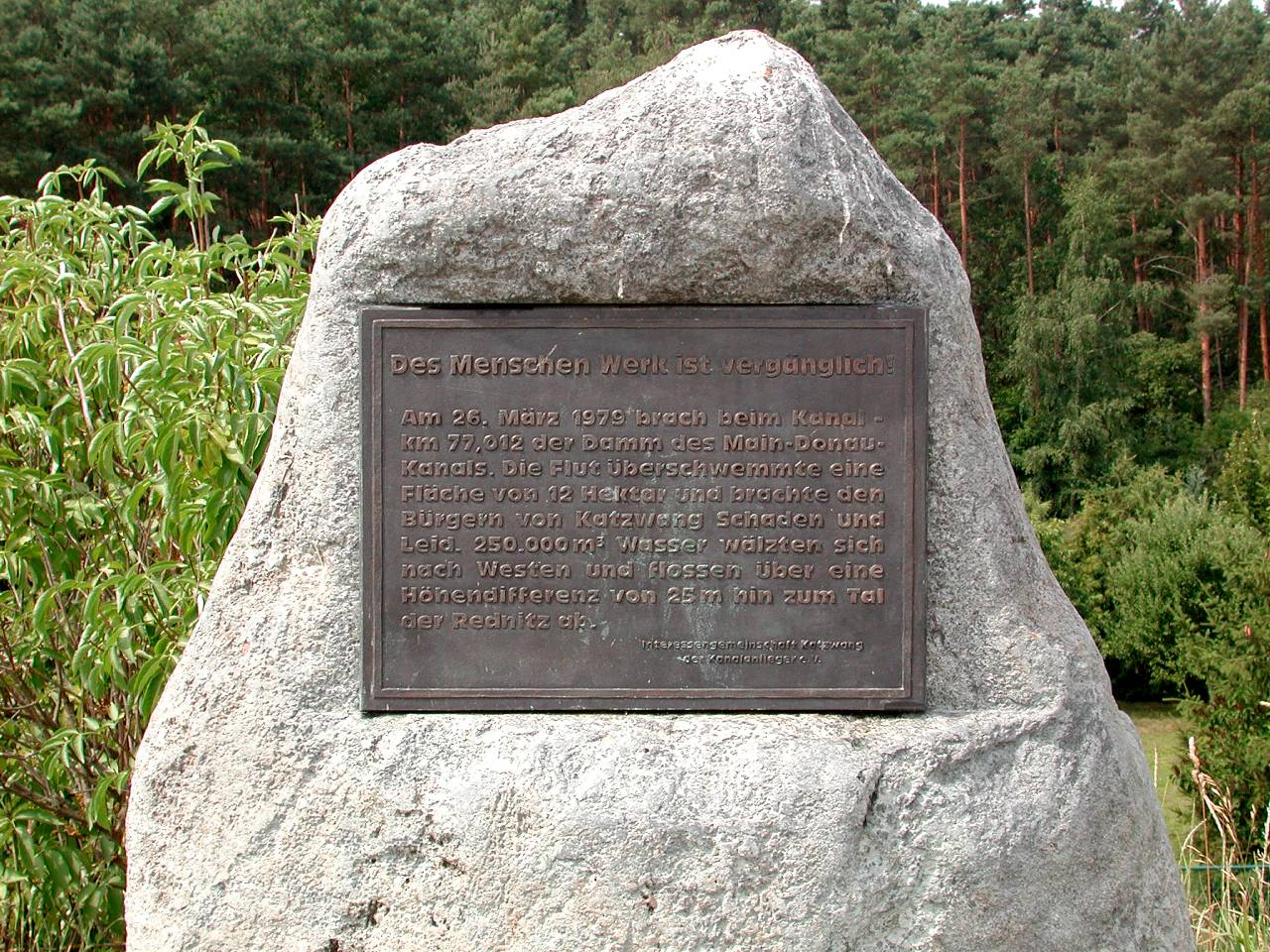 Picture of the memorial tablet for the dam failure in the Rhine–Main–Danube Canal at Katzwang.